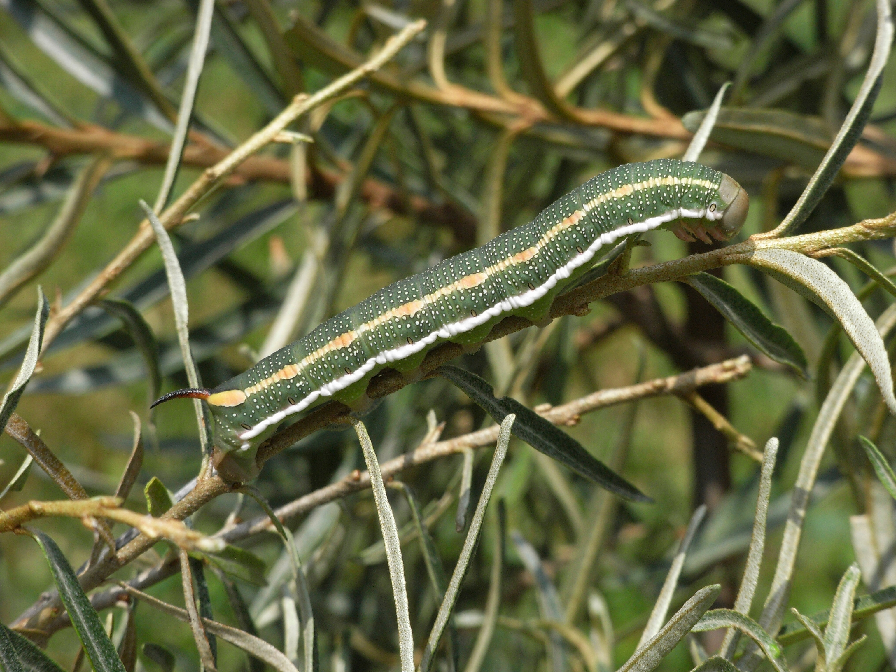 Please report references to leokuzmitsinode.at.